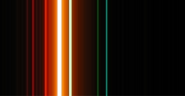 low-pressure sodium lamp spectrum 700-350nm wavelength